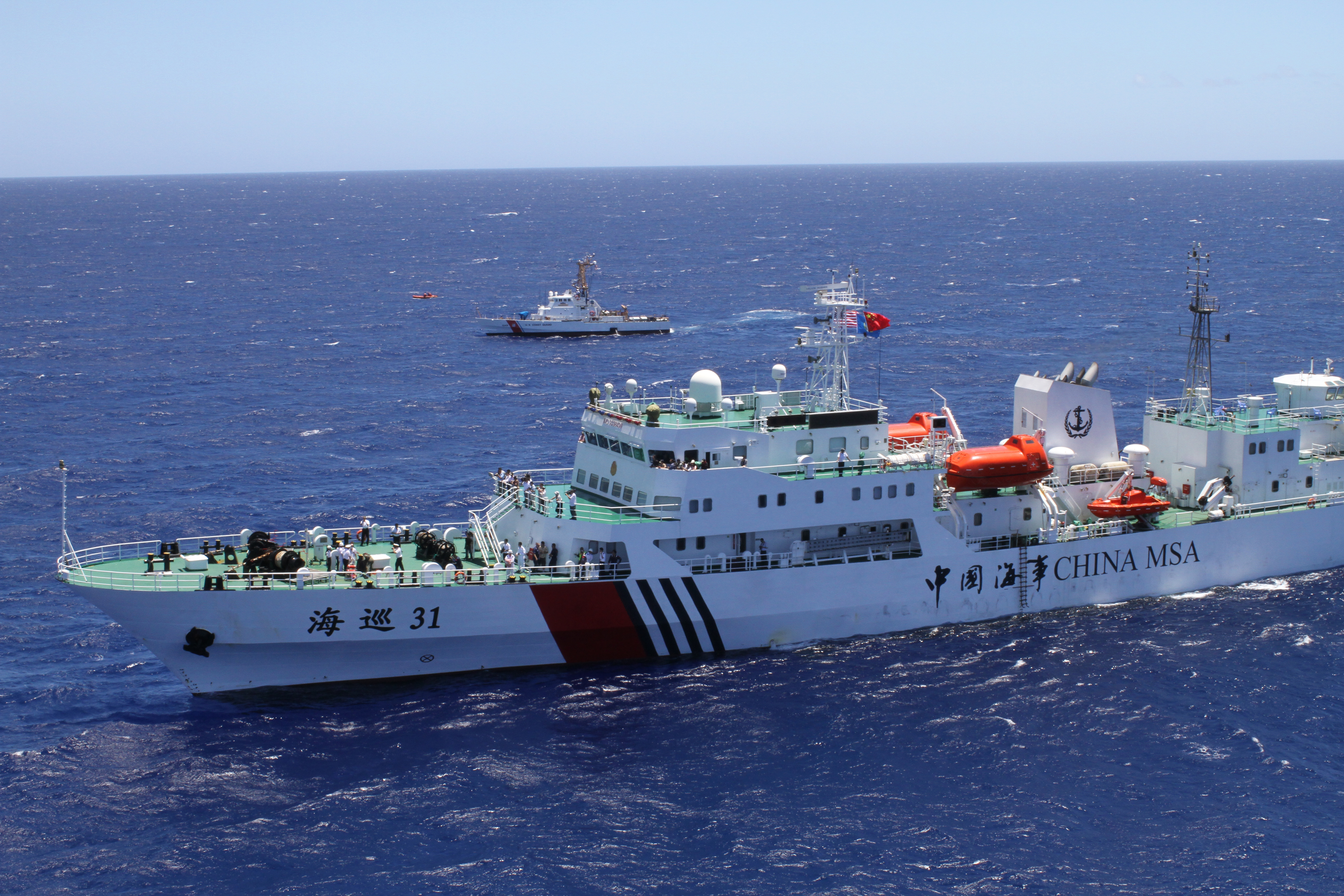 The crew of the U.S. Coast Guard Cutter Galveston Island (background), home ported in Honolulu, is underway alongside the crew of the People's Republic of China Maritime Safety Administration ship Haixun 31 (foreground) eight miles offshore of Honolulu, Sept. 6, 2012. The ships took part in a joint rescue exercise which included Haixun 31's helicopter crew and an MH-65 Dolphin helicopter crew from Coast Guard Air Station Barbers Point. U.S. Coast Guard photo by Petty Officer 2nd Class Eric J. Chandler.